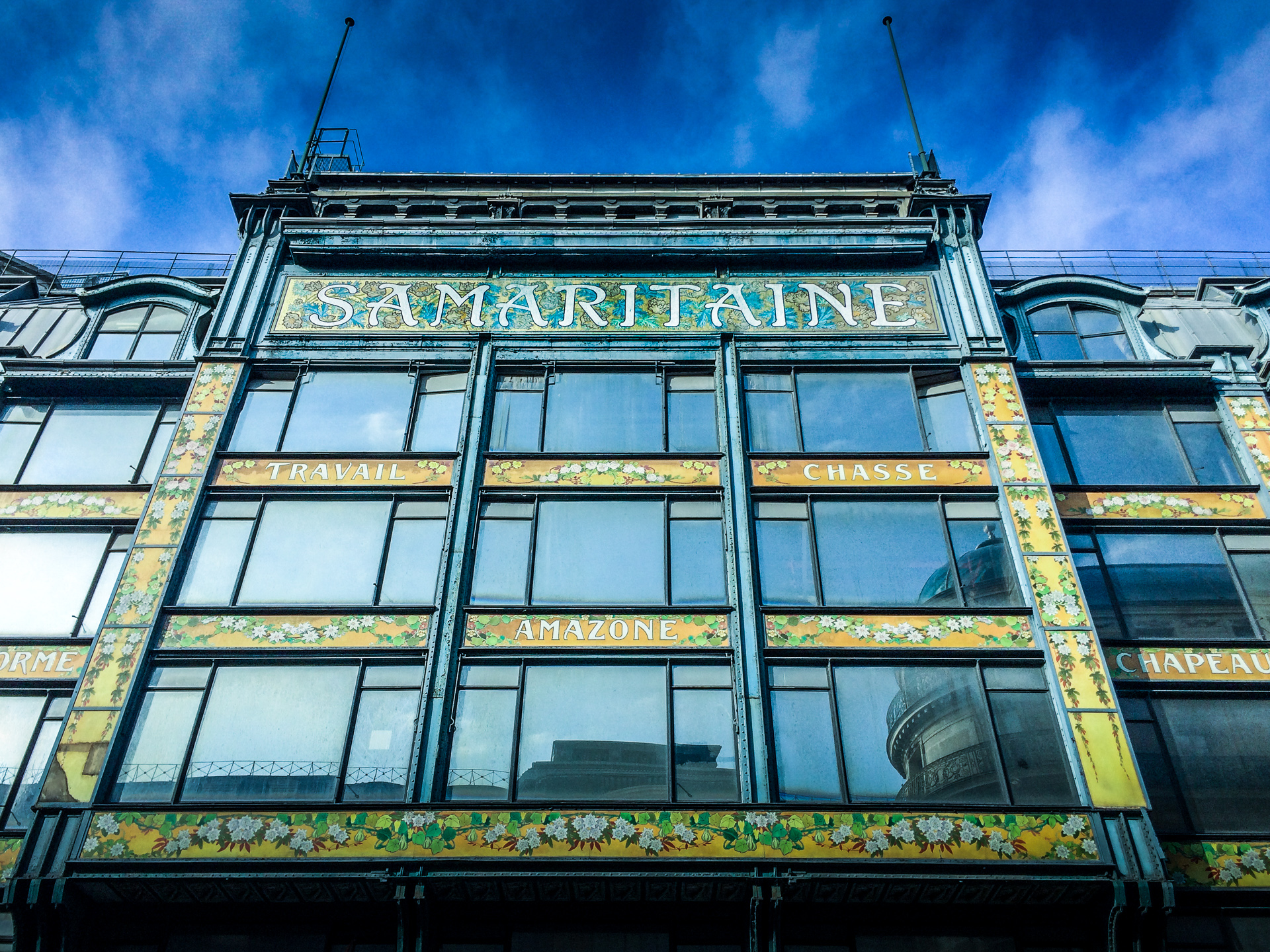 The Art Noveau side facade of the La Samartaine Appartement store, in Paris, France, due for renovation.